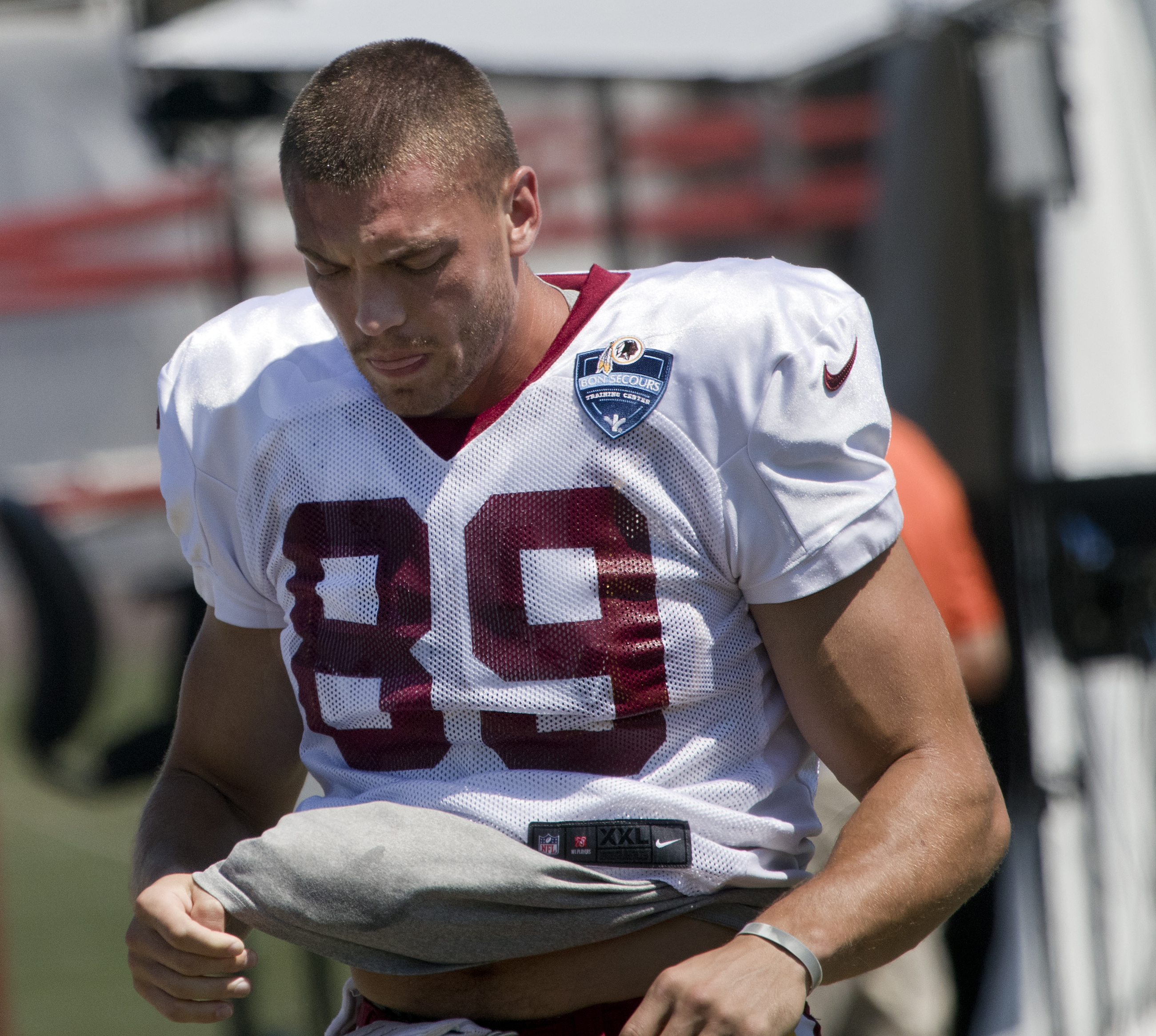 Washington Redskins tight end, Derek Carrier, at training camp on July 31, 2017.